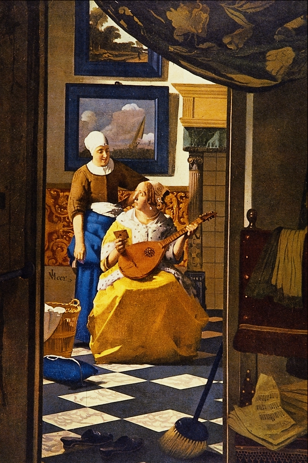 The Love Letter